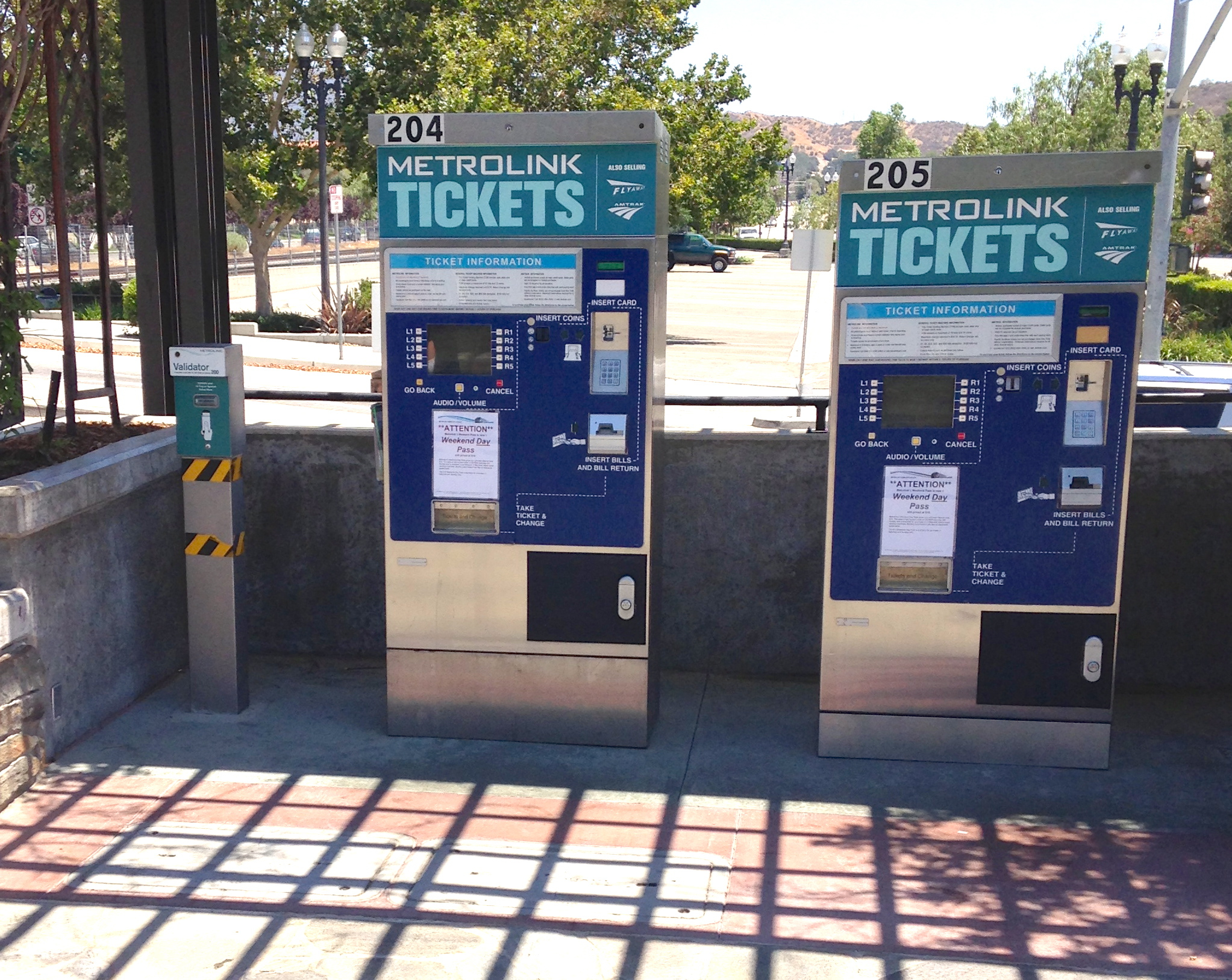 2 ticket vending machines and a ticket validator (soon to be removed) for Metrolink trains at the Newhall station in Santa Clarita, California. One machine is at standing height, the other is at an ADA-compliant height. Machines also sell tickets for Amtrak trains and the FlyAway Bus to LAX.